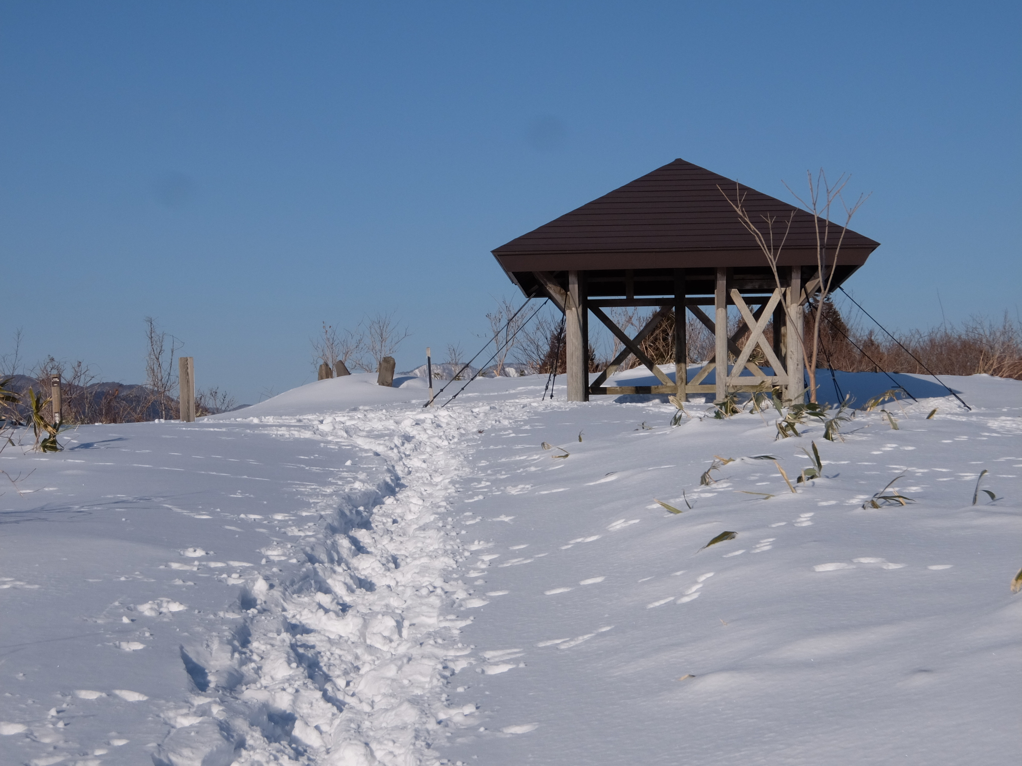 Top of the Takayama mountain in snow in Fujisato Town, Akita Prefecture, Japan